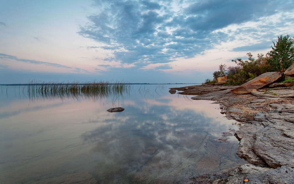 Lake Big Allaki